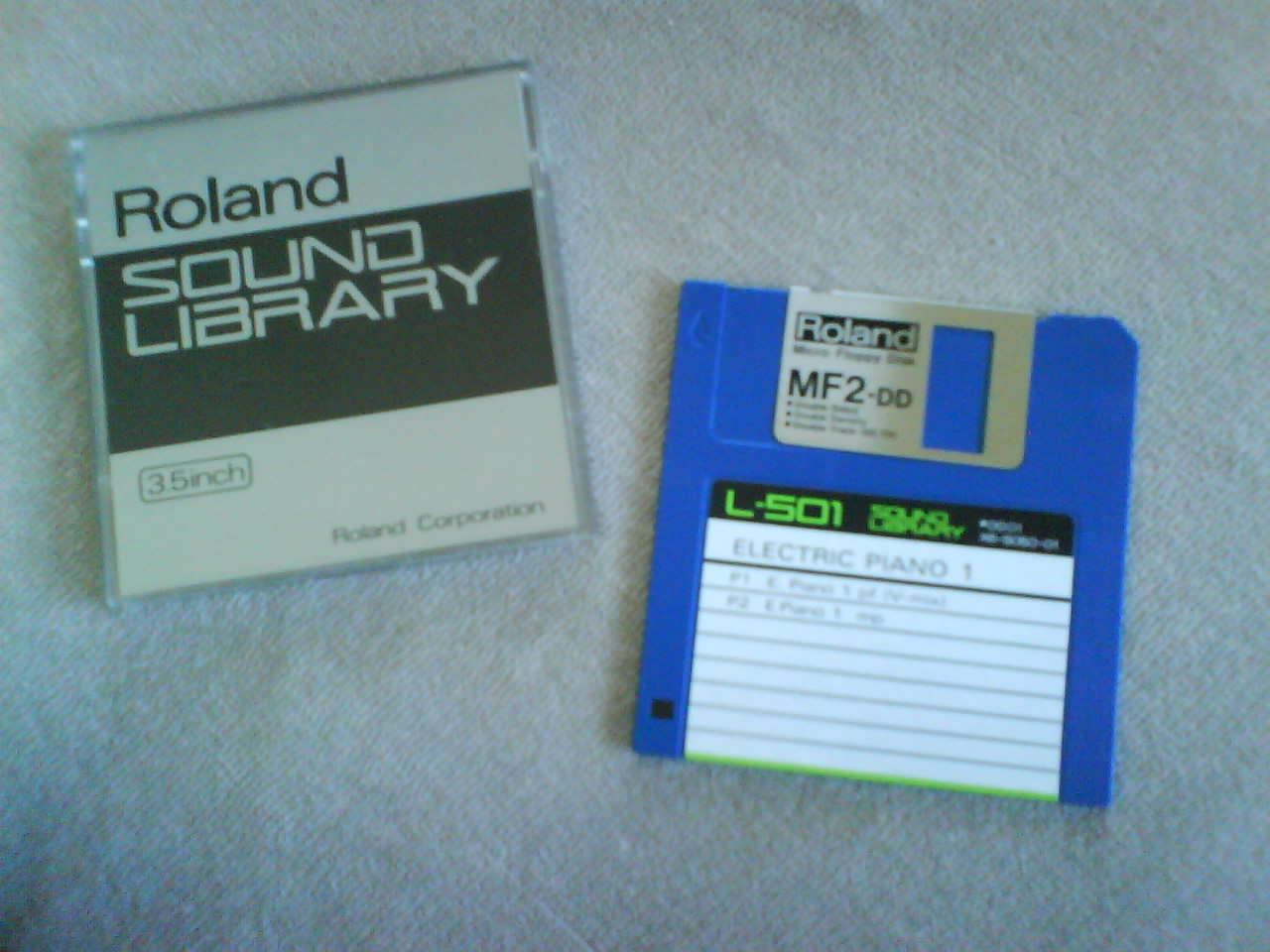 Example Roland Sound Library Disk 3,5" for Roland S-50 Sampler